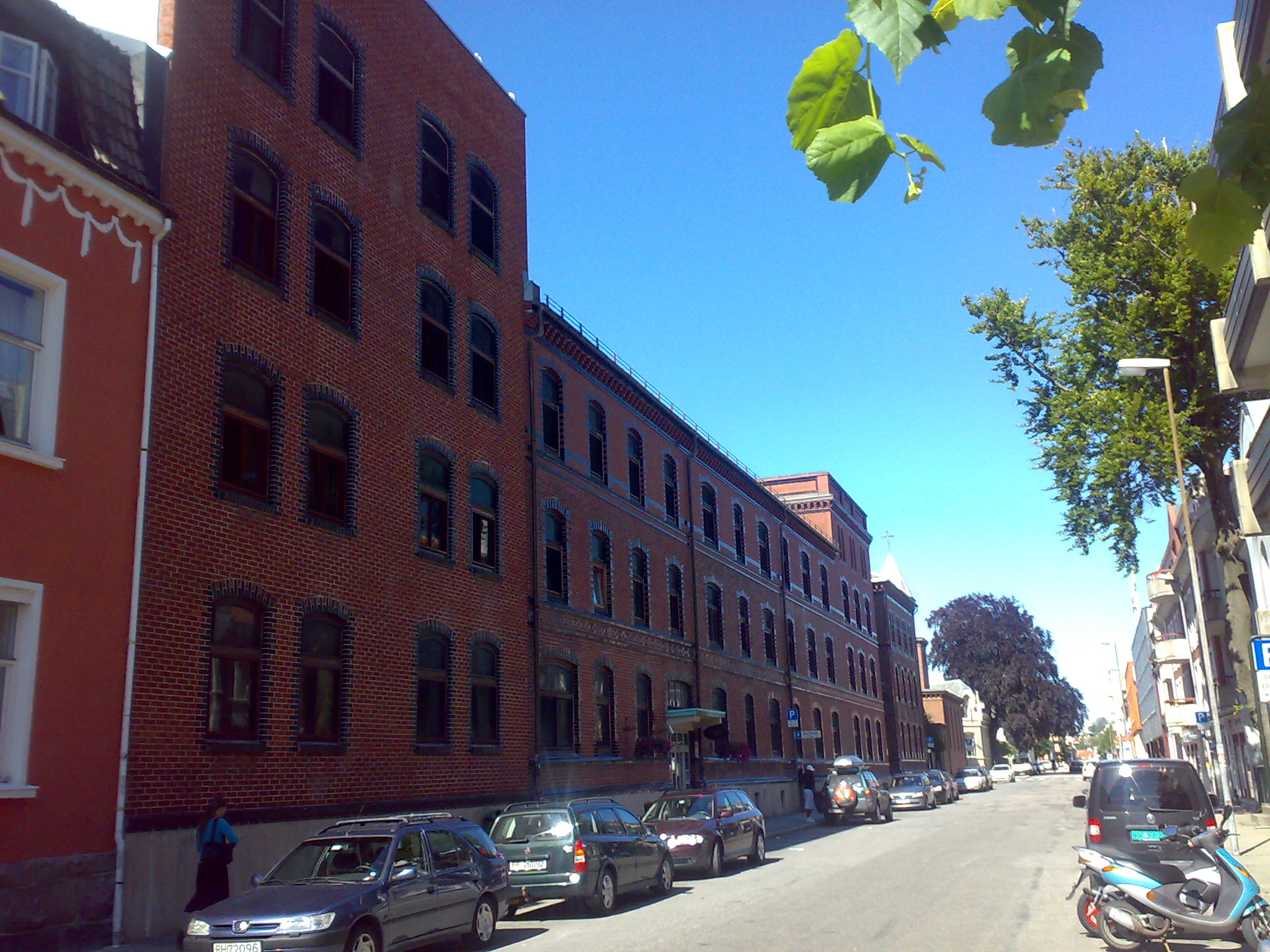 St Josef Hospital, Kristiansand, Norway. (historic)